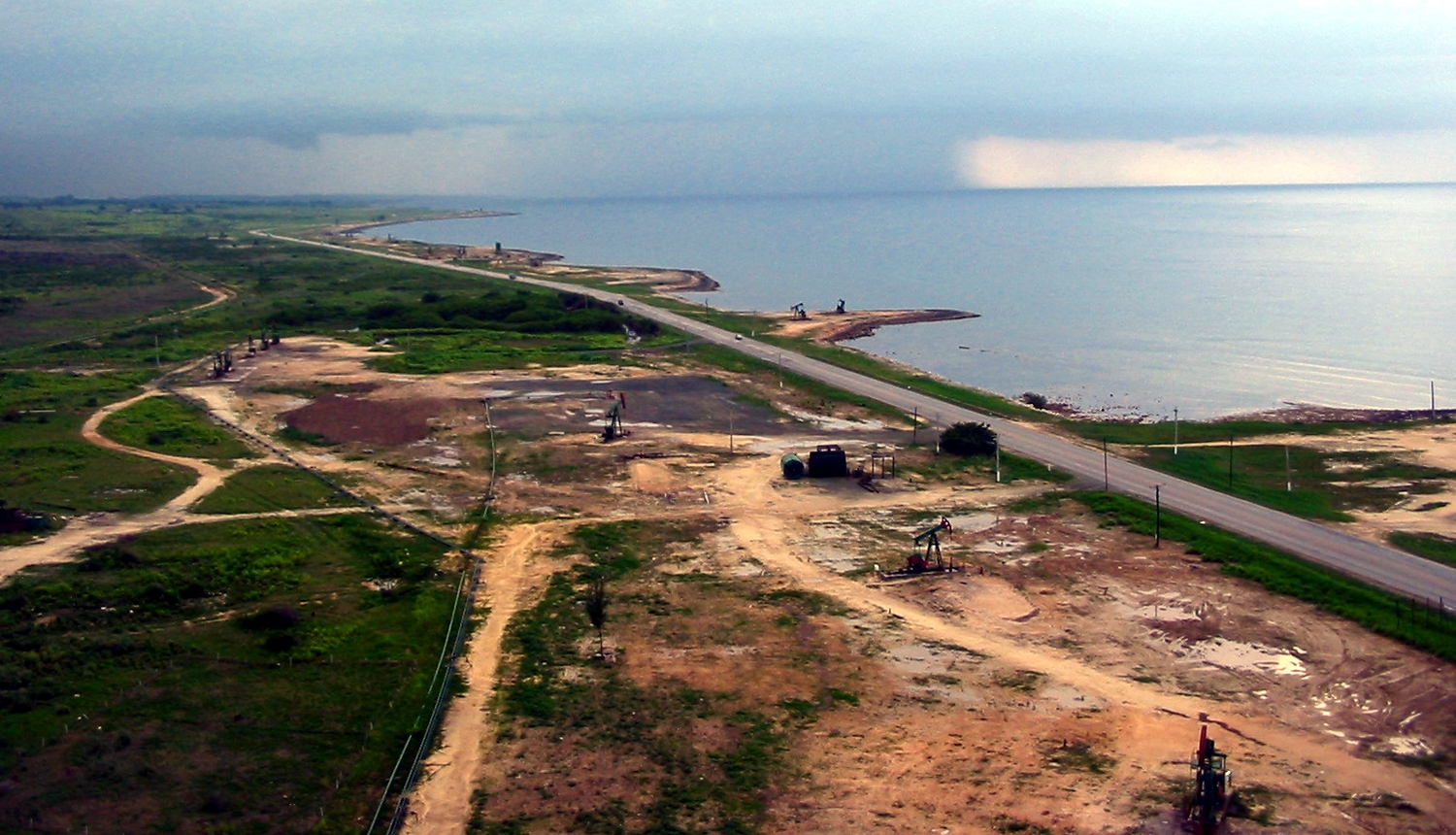 Vía Blanca highway passing through an oil field in Boca de Jaruco, near Jaruco in Mayabeque Province, northern Cuba.